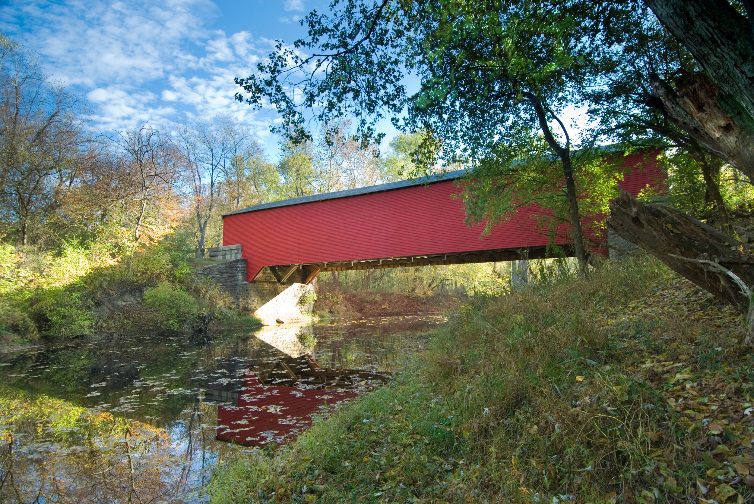 The Ramp Creek Covered Bridge at the north entrance of Brown County State Park in Indiana. Photo by Chuck Szmurlo taken Oct 31, 2007 with a Nikon D200 and a Nikon 12-24 f4 lens with a Singh Ray graduated neutral density filter.